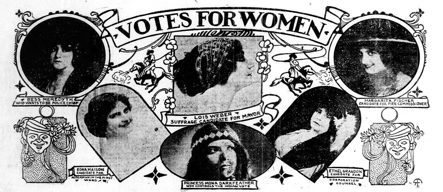 Advertisement for the "Suffrage Ticket" in the 1913 Universal City elections, including Lois Weber, Bess Meredyth, Ethel Grandon, and Margarita Fischer